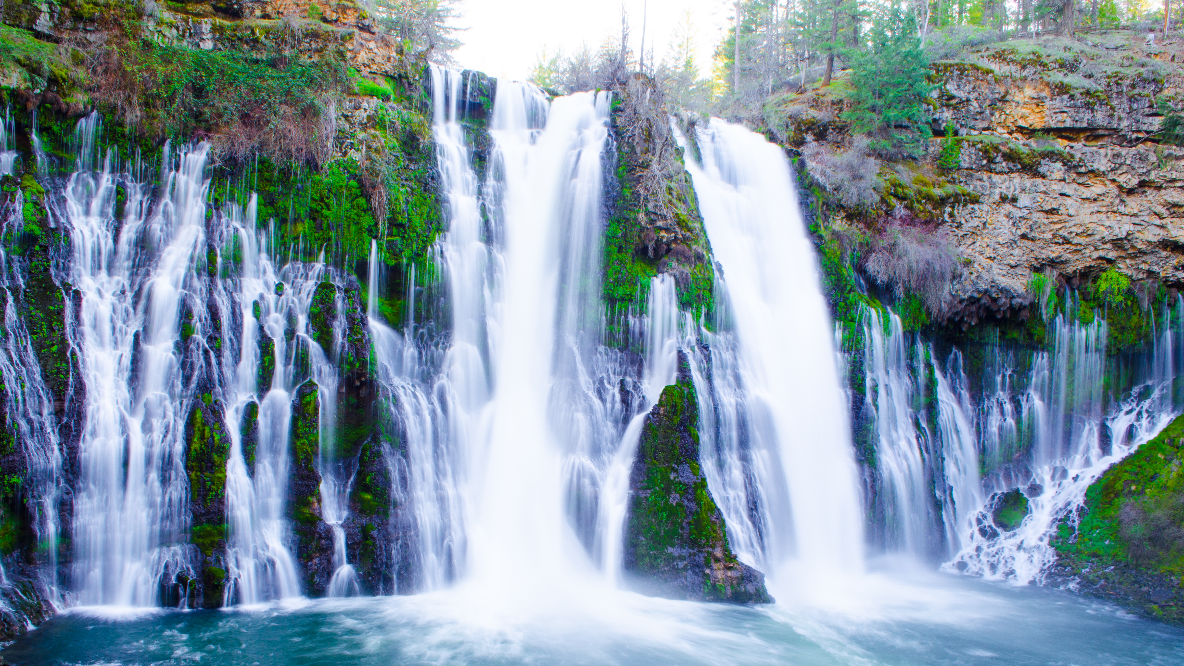 The Burney Falls in the eponymous State Park in California, in full flow in April, when the snow has started melting.